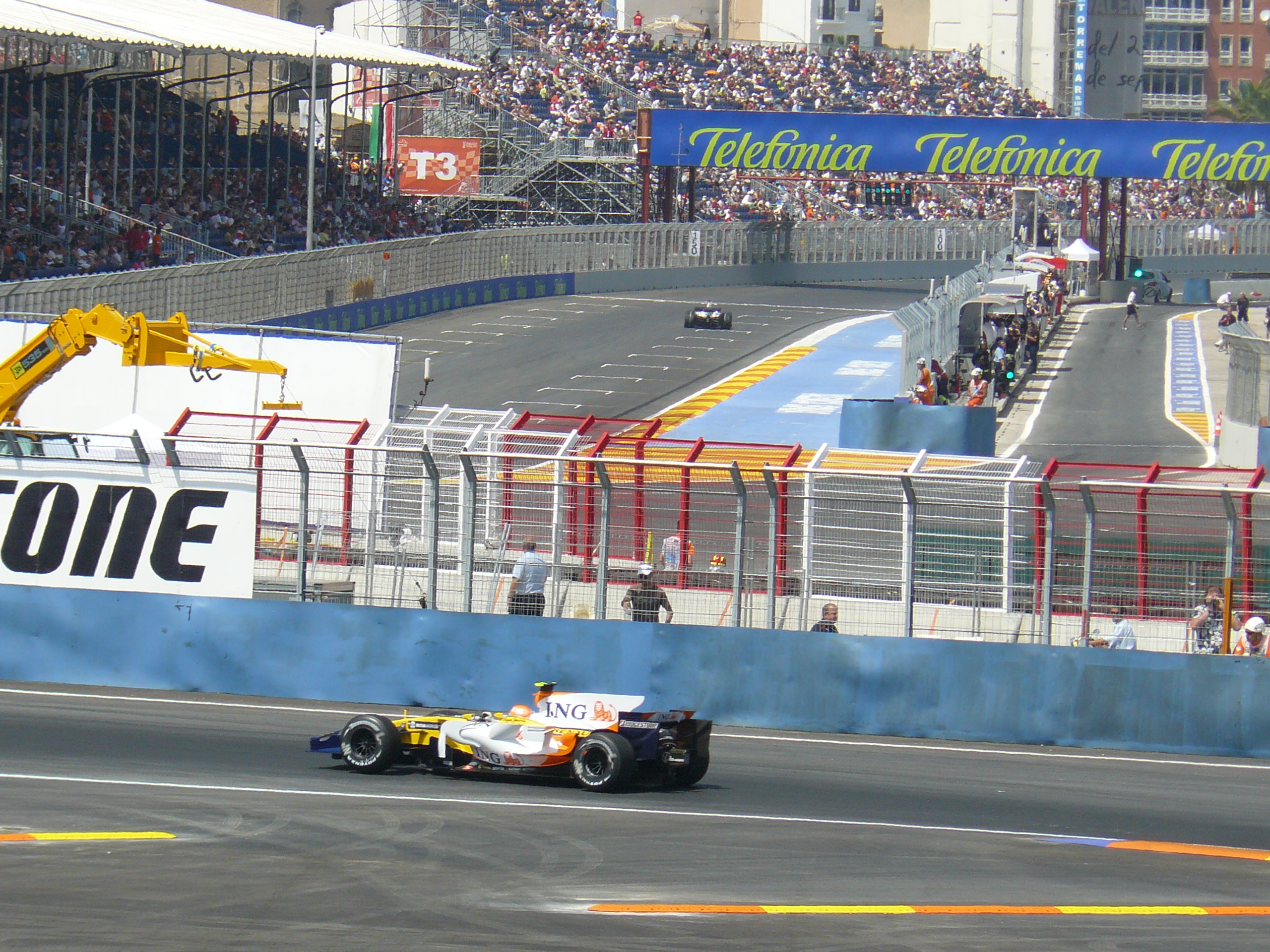 Nelsinho Piquet, Renault - Formula 1 Grand Prix of Europe, Valencia Street Circuit, Spain, August 2008